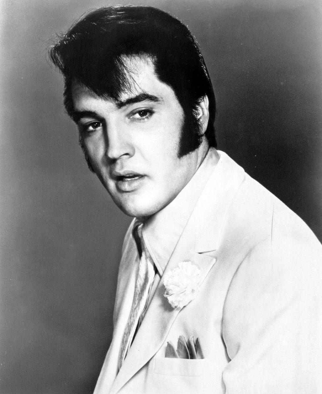 Elvis Presley publicity photo for The Trouble with Girls, 1968